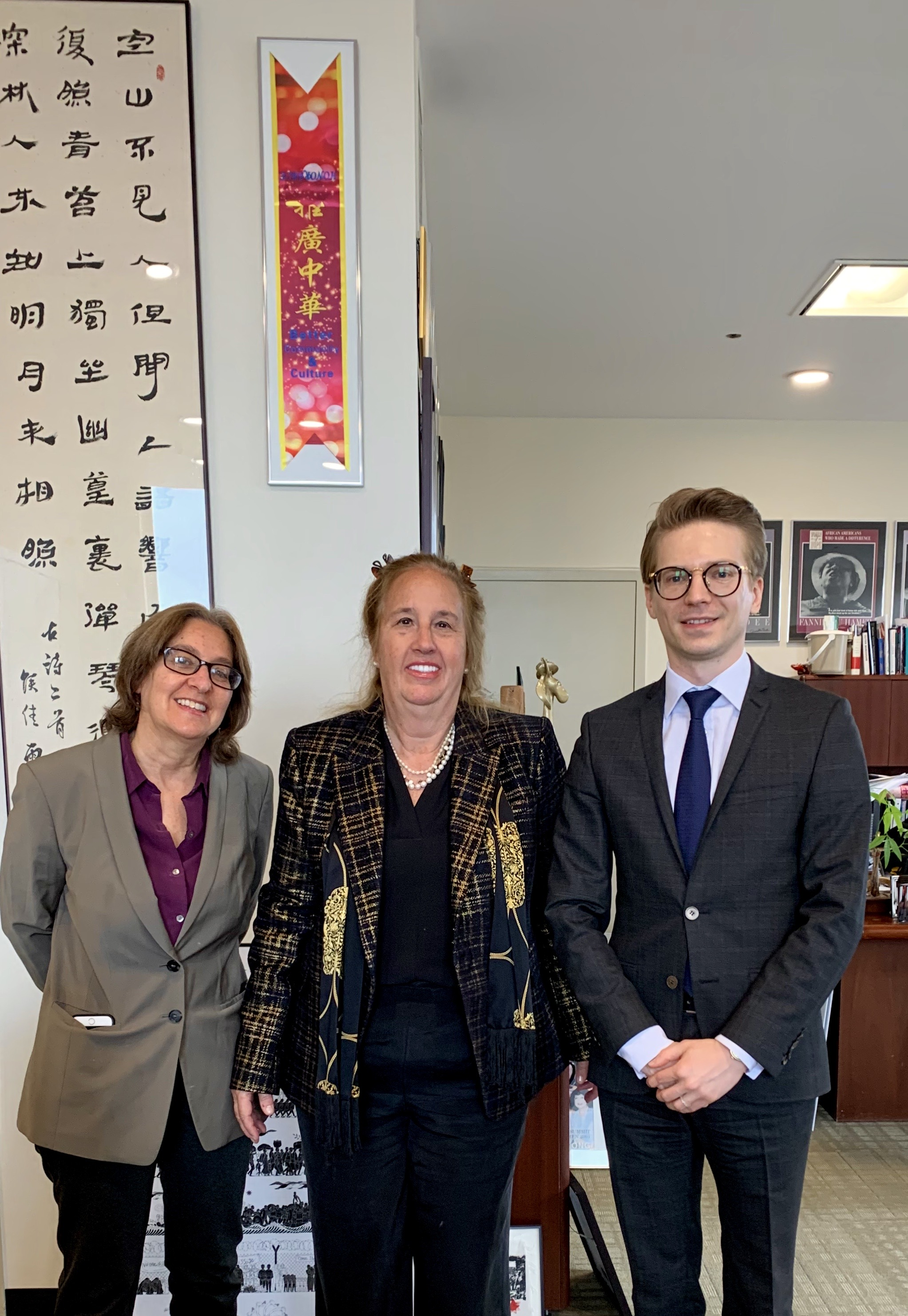 Philanthropist and founder of World NGO Day - Marcis Skadmanis meeting Gale Brewer, President of Manhattan, New York, October 2019.